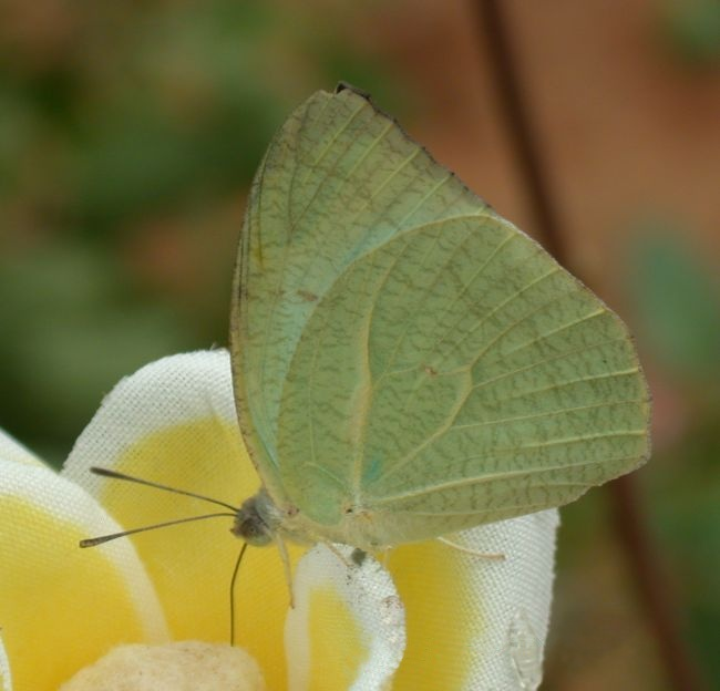 Catopsilia pyranthe adult